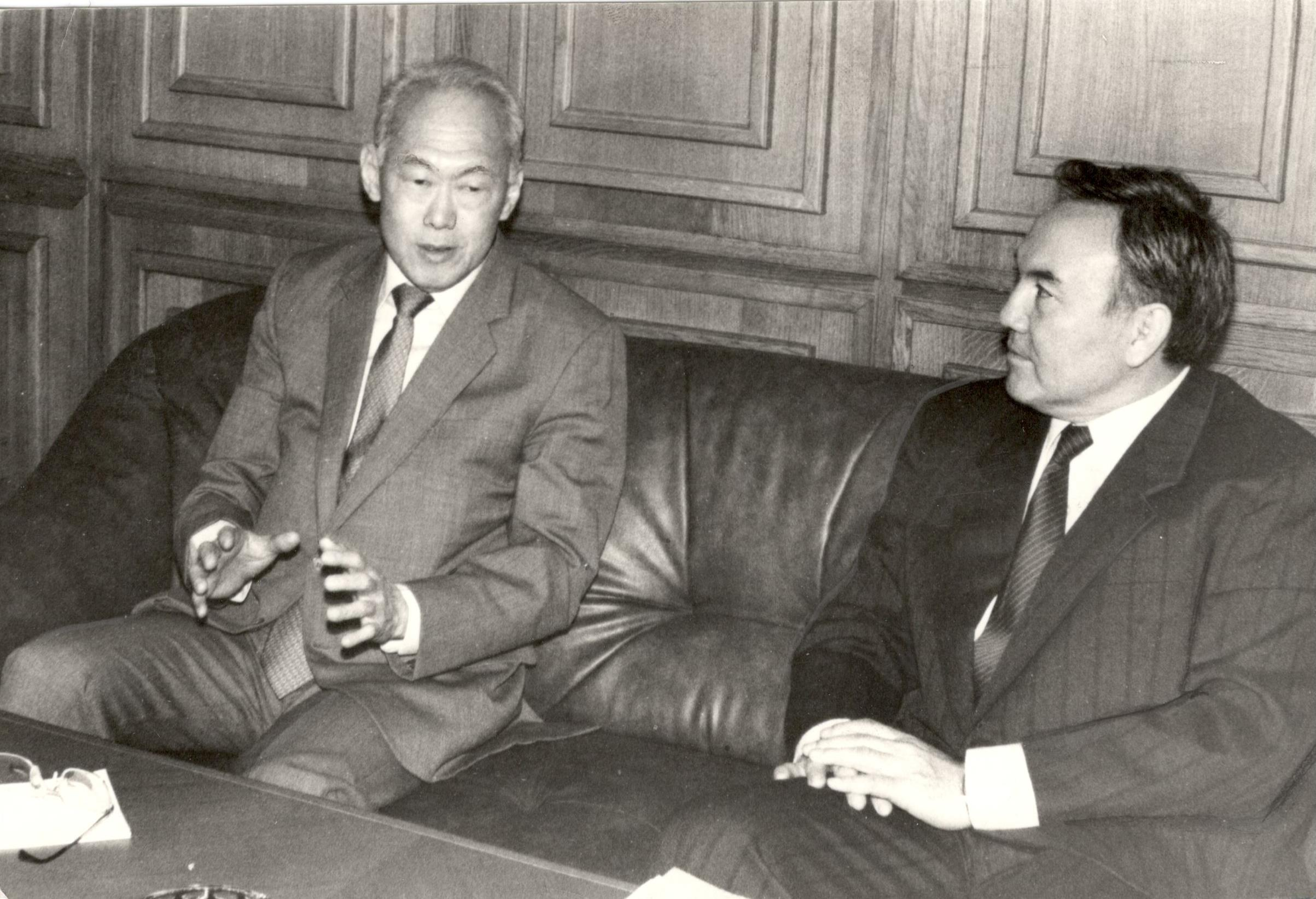 Official meeting between Nazarbayev and Lee Kuan Yew